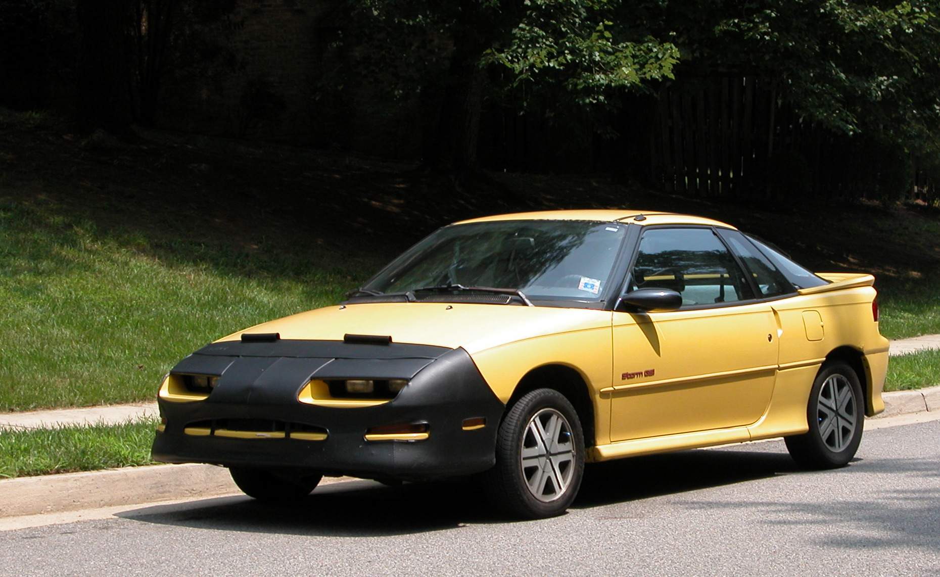 A yellow 1990 Geo Storm GSi parked on Silvervine Lane in Springfield, Virginia. Note that the car is equipped with a front-end bra designed for the base Geo Storm model, and unintentionally obscures the distinctive GSi fog lights.